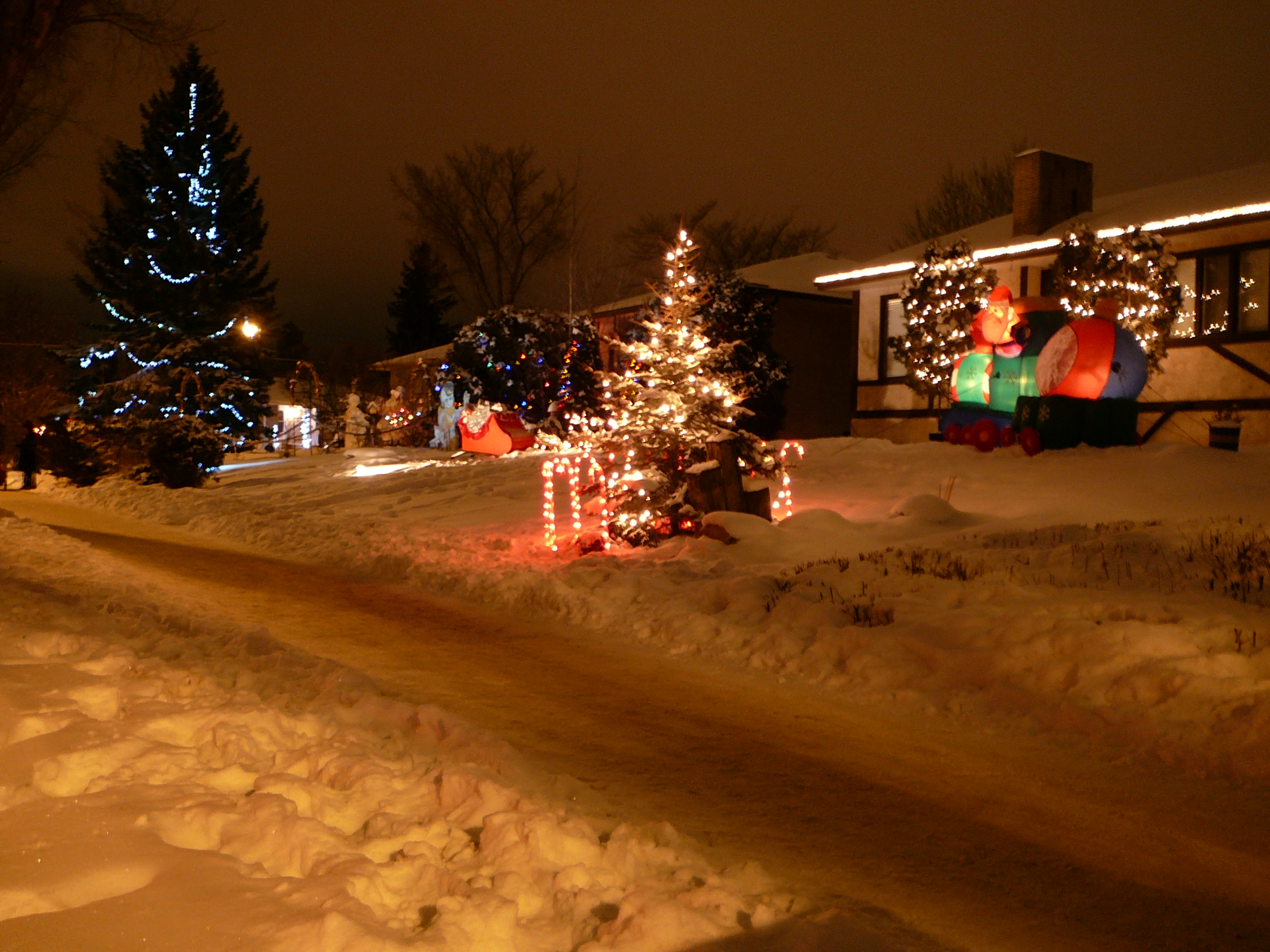 Residences on Candy Cane Lane in the Edmonton Neighbourhood of Crestwood.